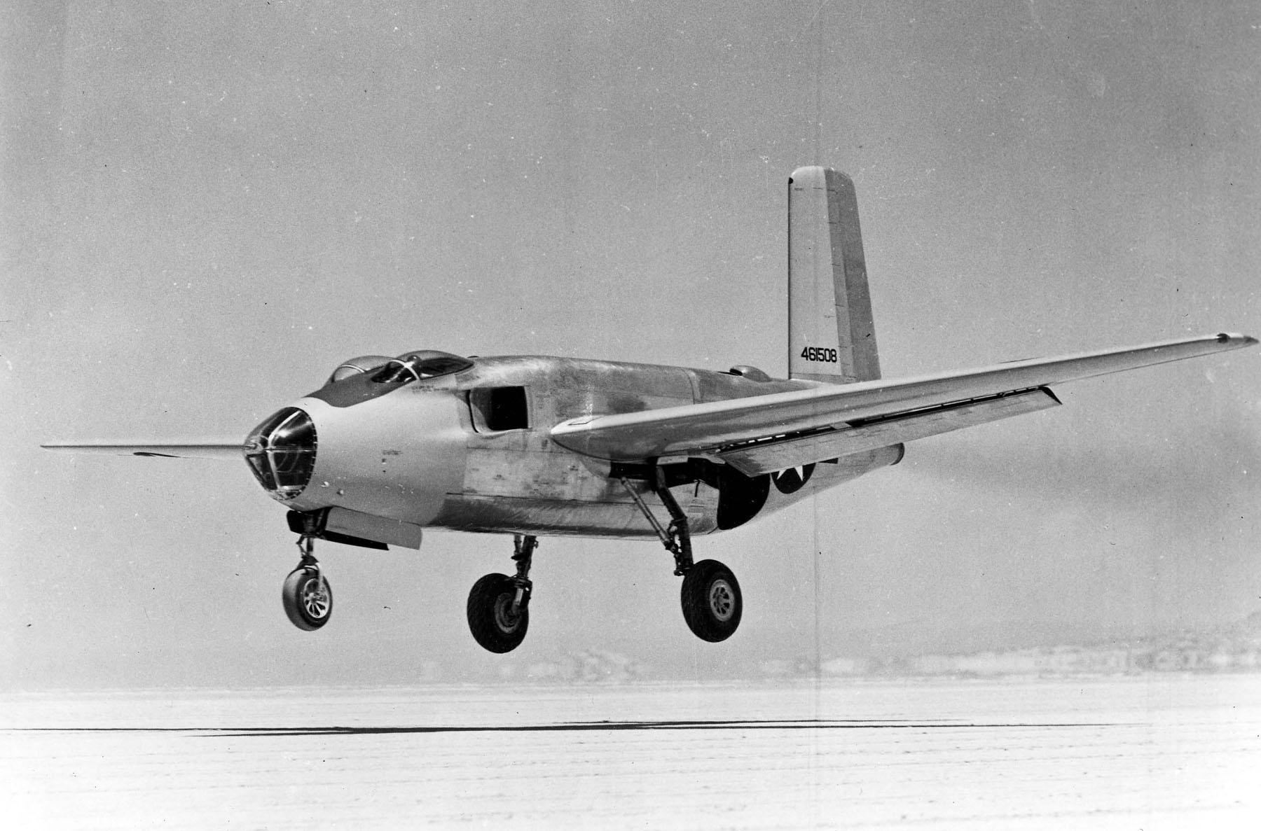 Douglas XB-43 just getting airborne